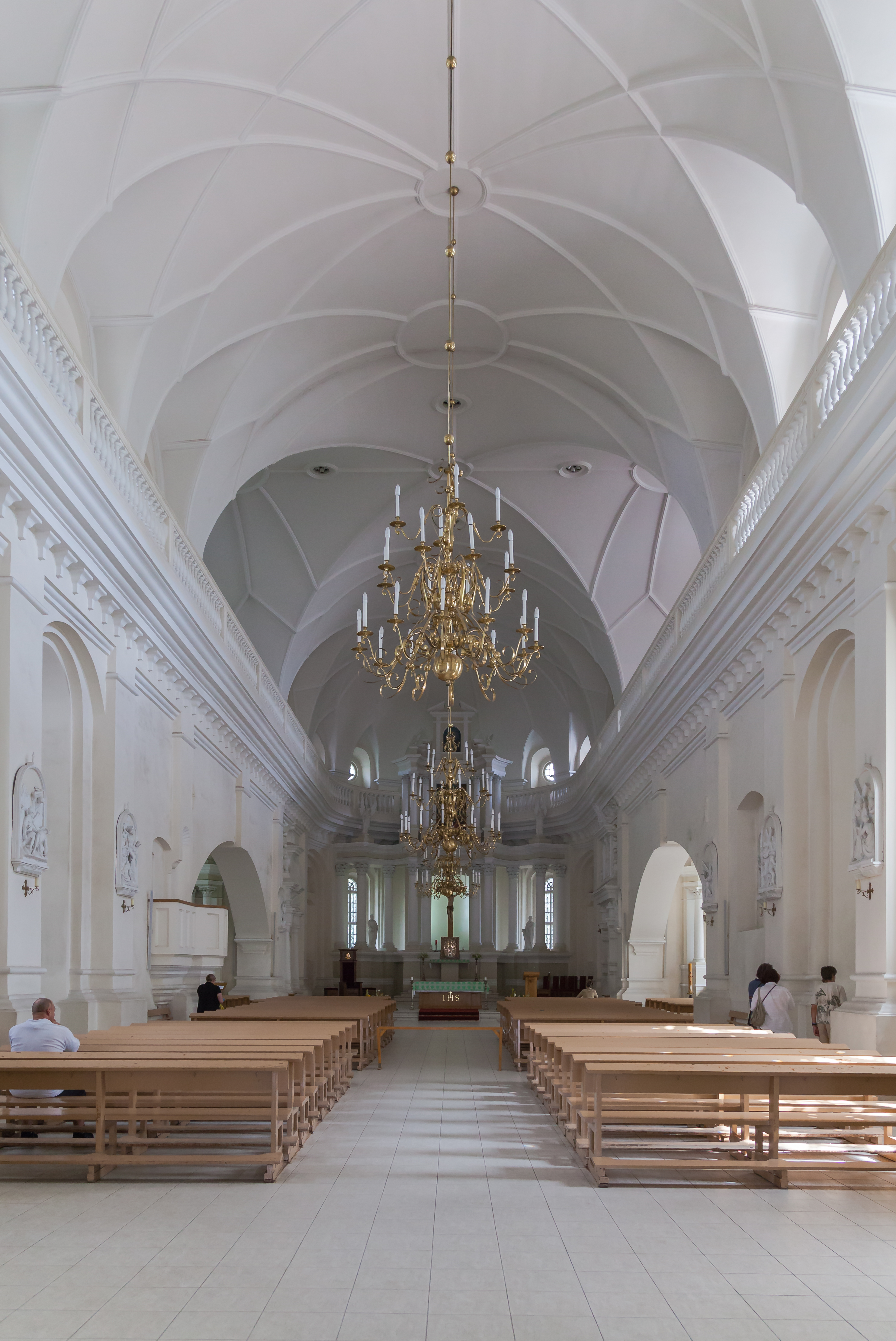 Siauliai Cathedral, Lithuania